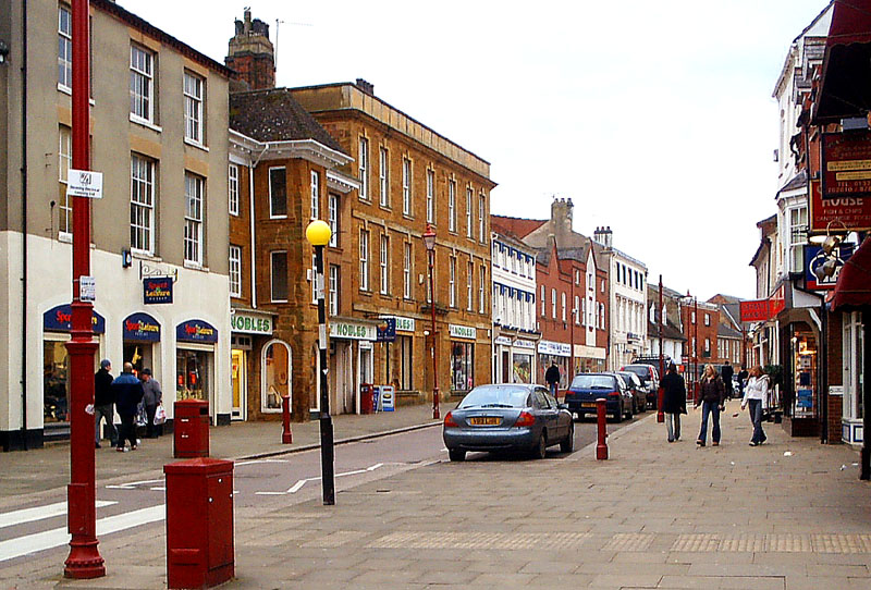 High Street c2005, Daventry Northants